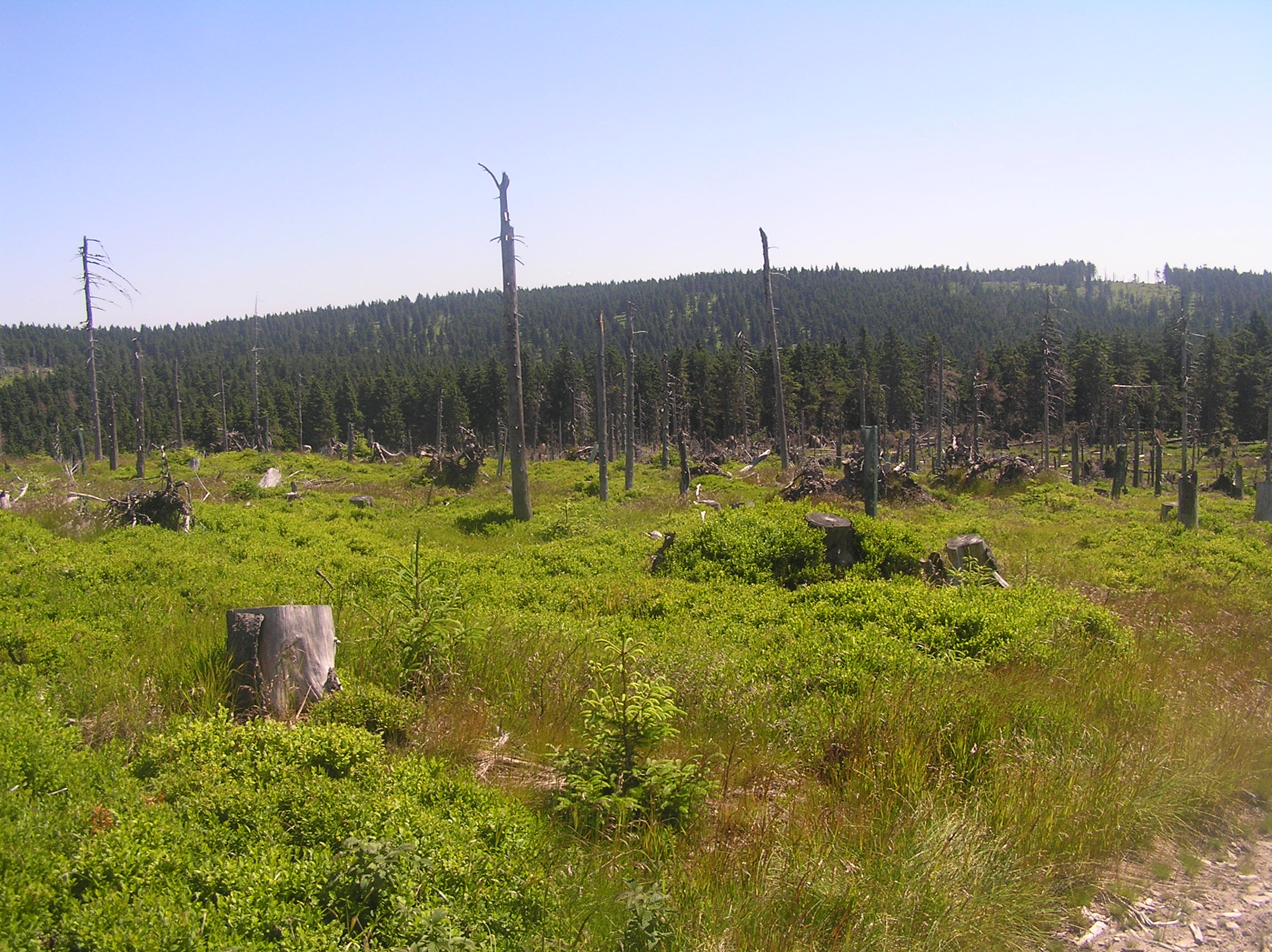 Babuše, Králický Sněžník, Czech Republic